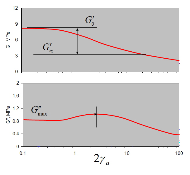 illustration of the Payne effect in filled rubber.